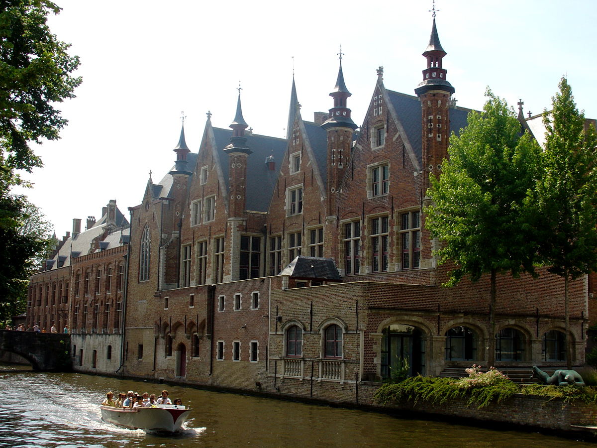 One of Brugge canal, Bruges, Belgium.